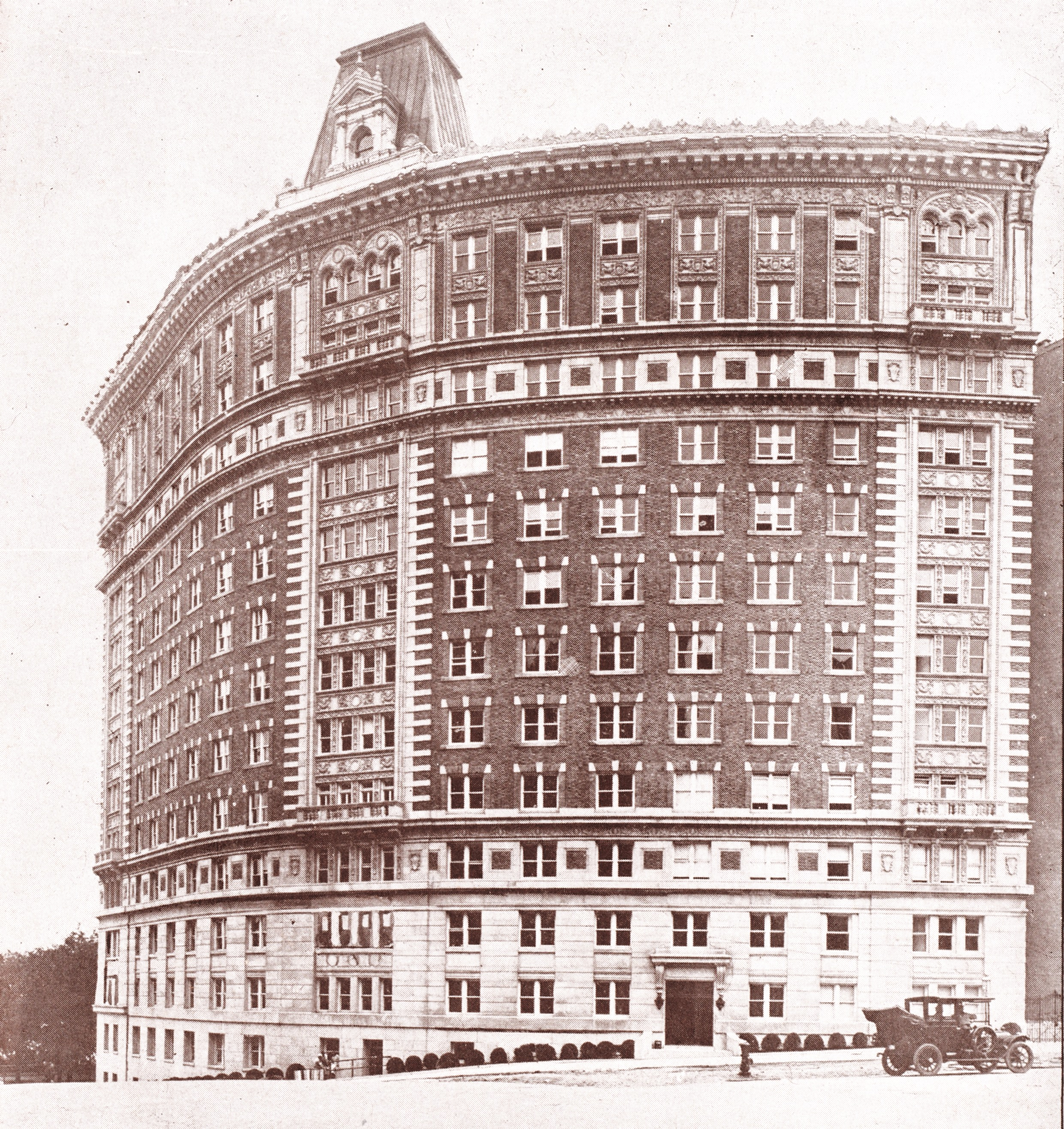 The Paterno. Riverside Drive, West One Hundred and Sixteenth Street and Claremont Avenue (Block Front); cropped